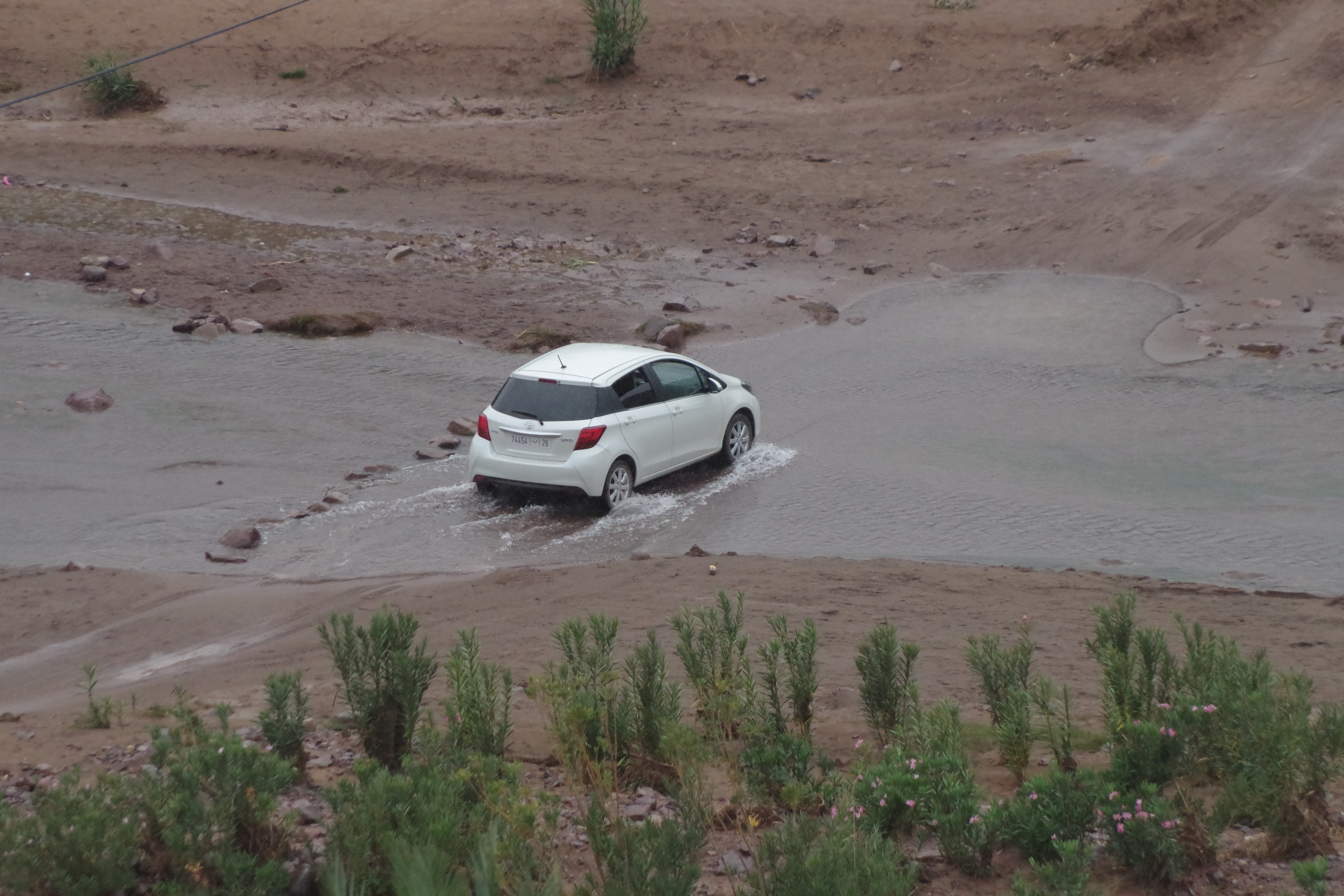 This is an image with the theme "Africa on the Move or Transport" from: Morocco